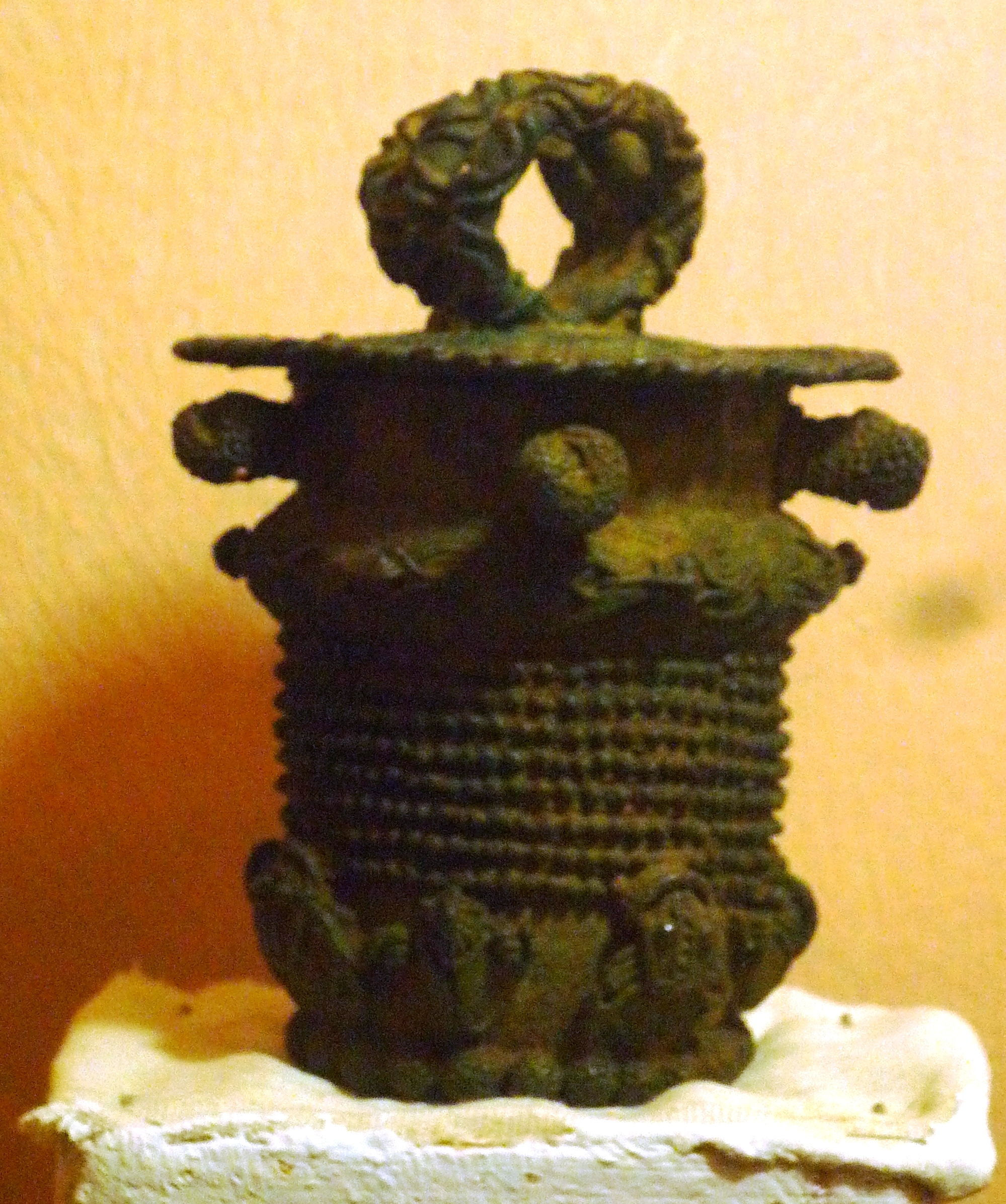 Photograph of a 9th century bronze pot excavated in Igbo-Ukwu, Anambra State Nigeria. Presently located in the National Museum, Onikan, Lagos, Nigeria